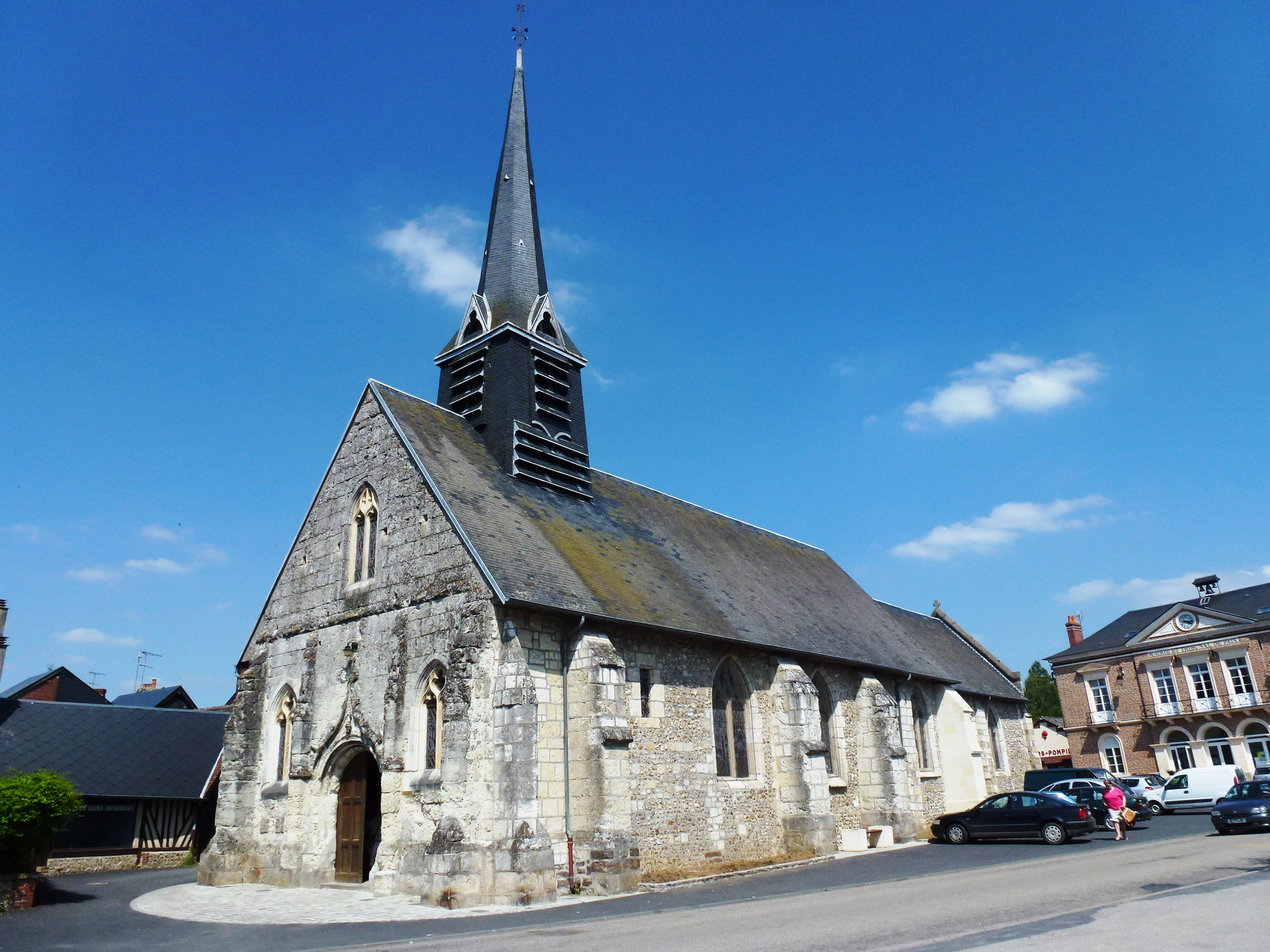 Thiberville (Eure, Fr) église Saint Taurin, extérieur